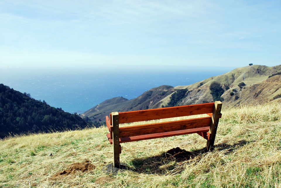 A view of the Pacific Ocean from the Big Sur coastline alongside the Nacimiento- Ferguson Road. This scenic view is best enjoyed from the bench that the Mano Seca Group has installed just below a turnout on the road.